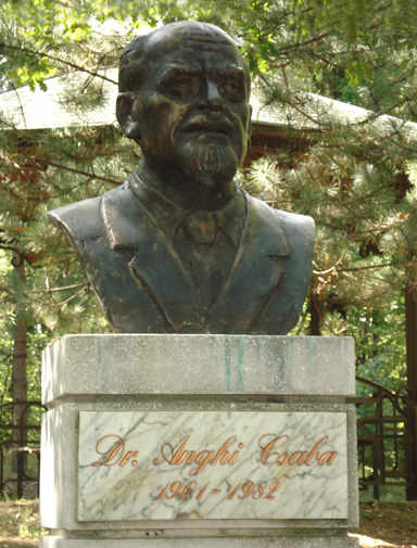 Szobor – Zsolt Jószay: Csaba Anghi. Wildlife park, Miskolc, Hungary